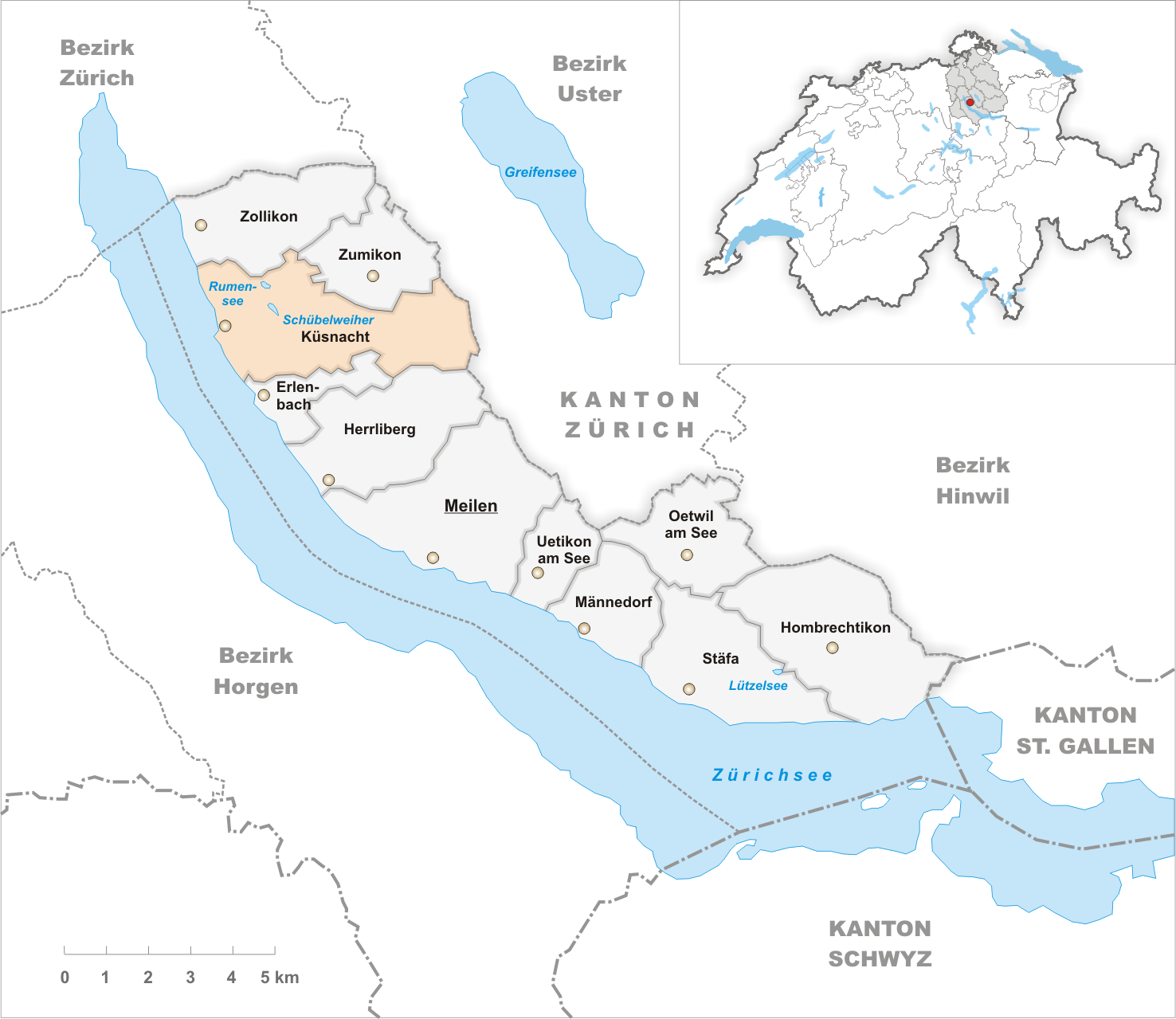 Municipality Küsnacht